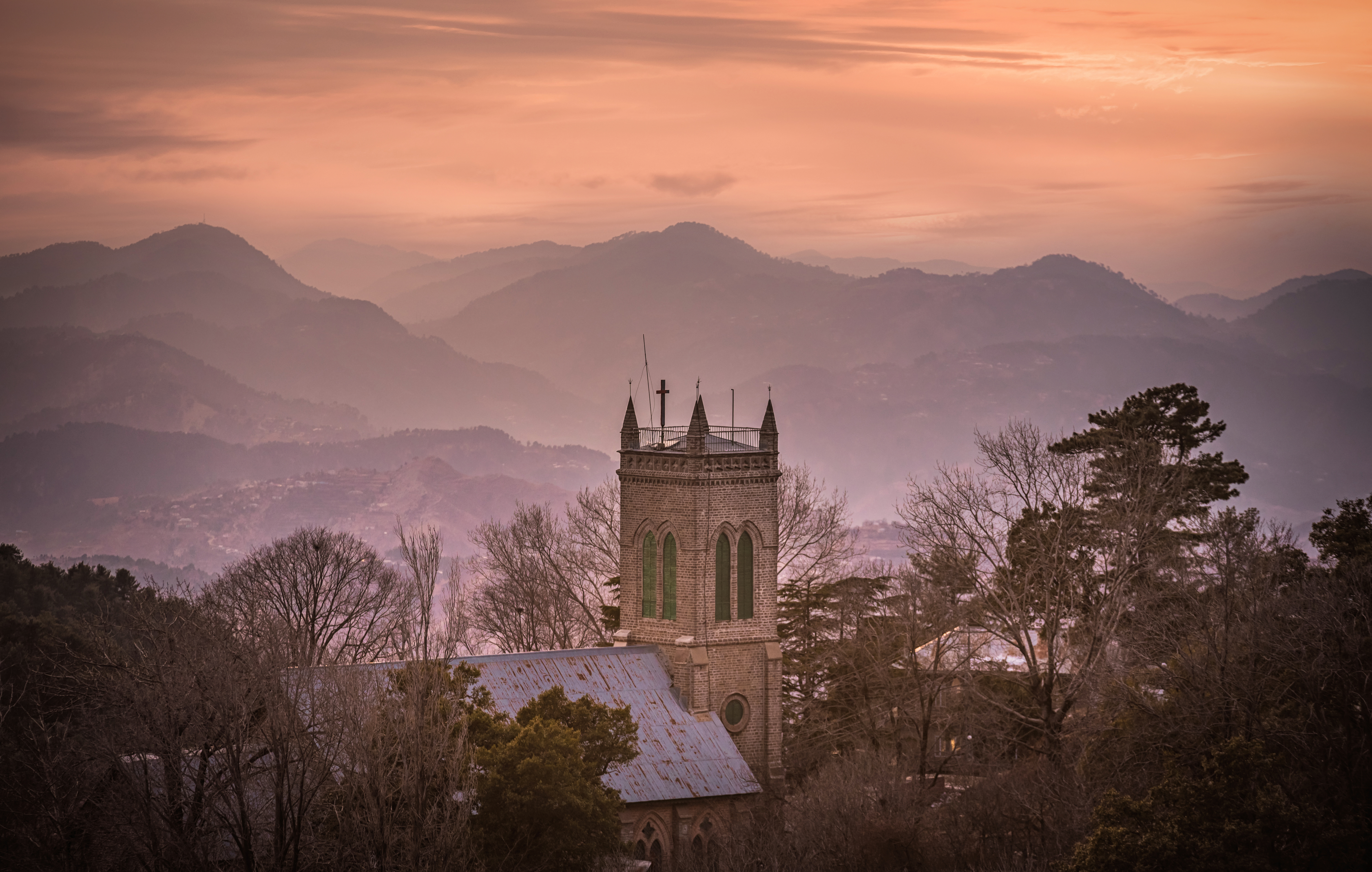 Holy Trinity Church This is a photo of a monument in Pakistan identified as the PB-U-47